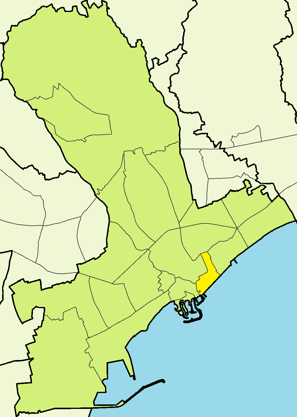 Agia Napa in Limassol Municipality